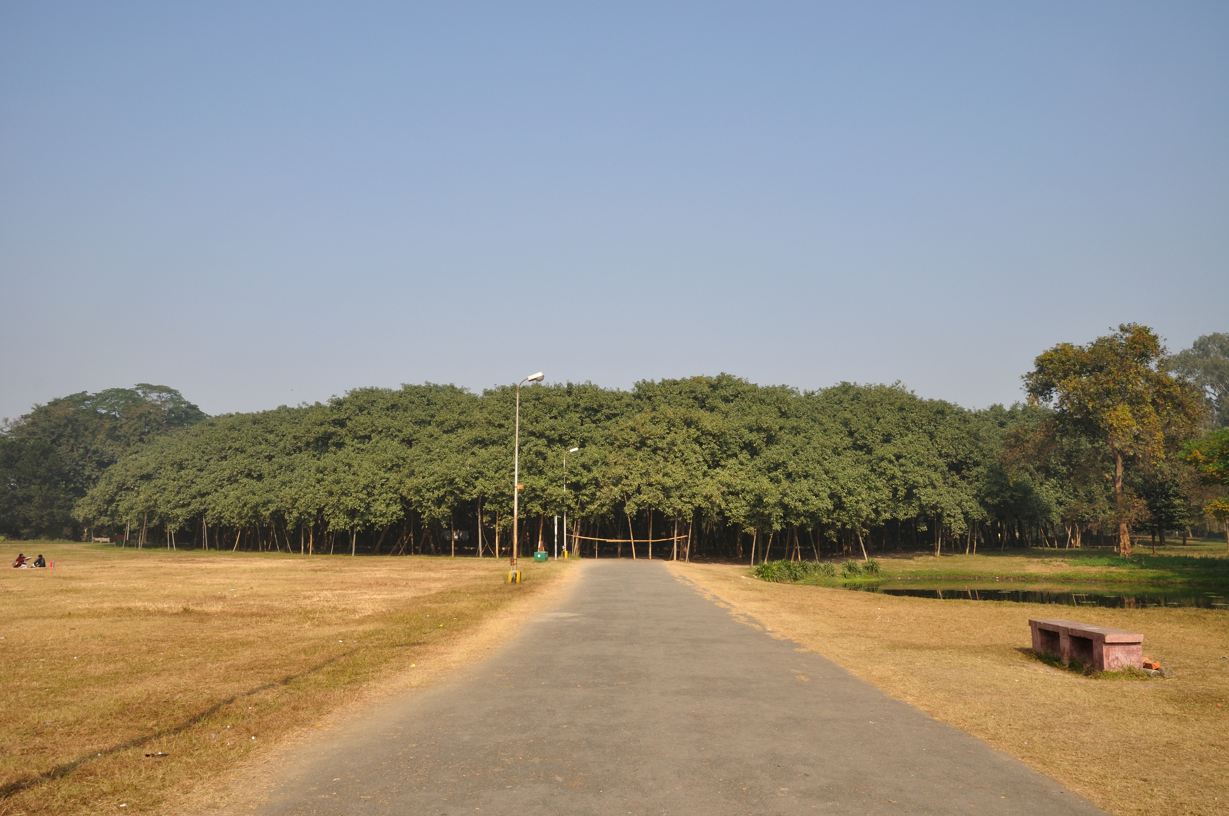 The Great Banyan (scientific name: Ficus benghalensis, family: Moraceae) tree at the botanical garden, Howrah. The garden was known as ‘East India Company’s Garden’ or the ‘Company Bagan’ or ‘Calcutta Garden’ and later as the ‘Royal Botanic Garden’ which after independence was renamed as the ‘Indian Botanic Garden’ in 1950. It came under the management of the Botanical Survey of India on January 1, 1963. From June 25, 2009 it was renamed as ‘Acharya Jagadish Chandra Bose Indian Botanic Garden’.